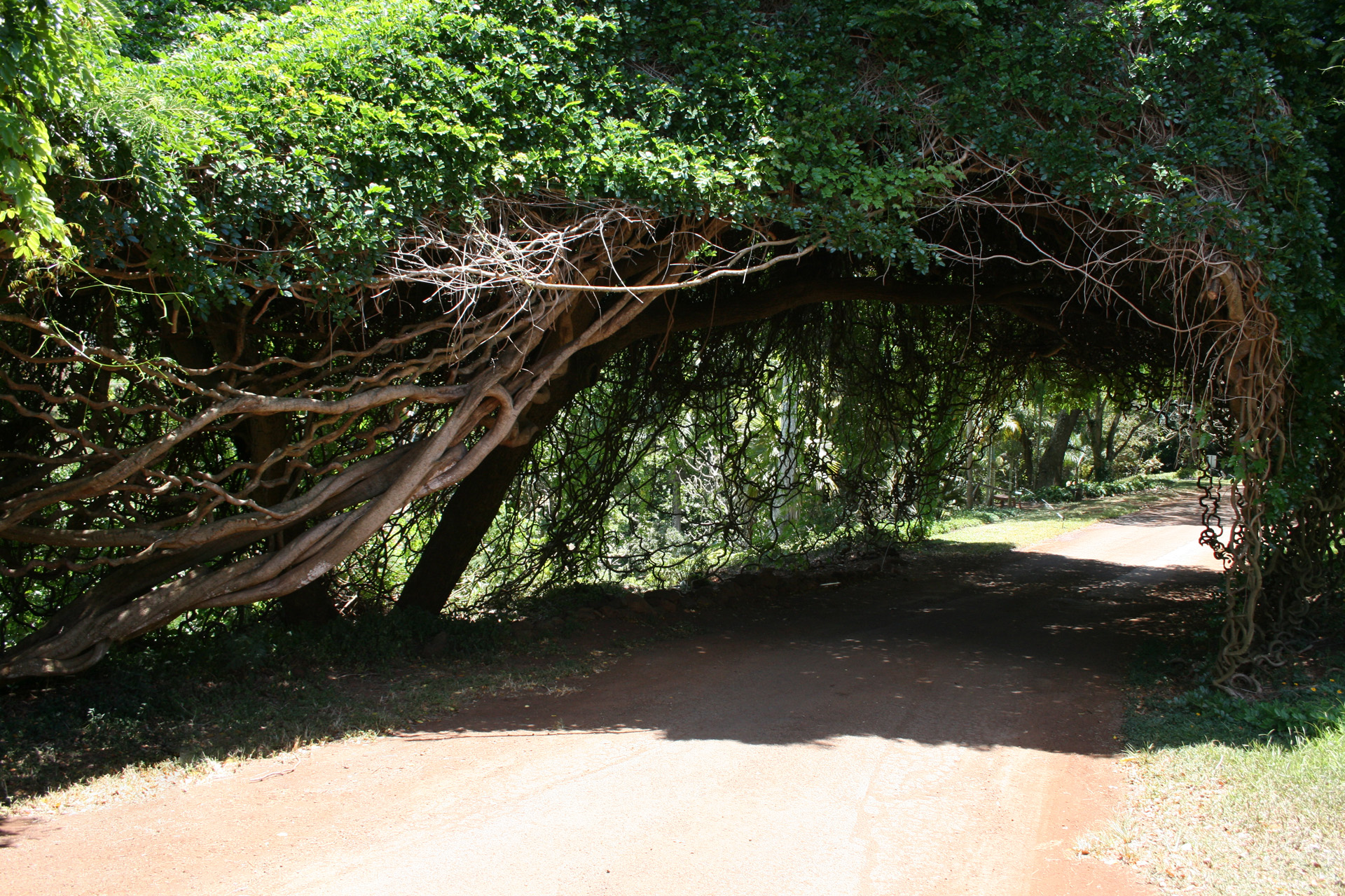 A picture of a Monkey Ladder Vine taken 2007/08/29 at the McBryde Garden in Hawaii on the island of Kauai. The picture was stitched from two photos and cropped, otherwise is in its original state.